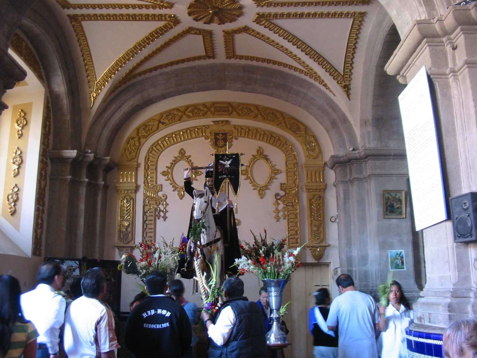 Statue of Santiago Apostol, patron saint of Chalco de Diaz Corvarrubias State of Mexico Mexico, as displayed in town church.